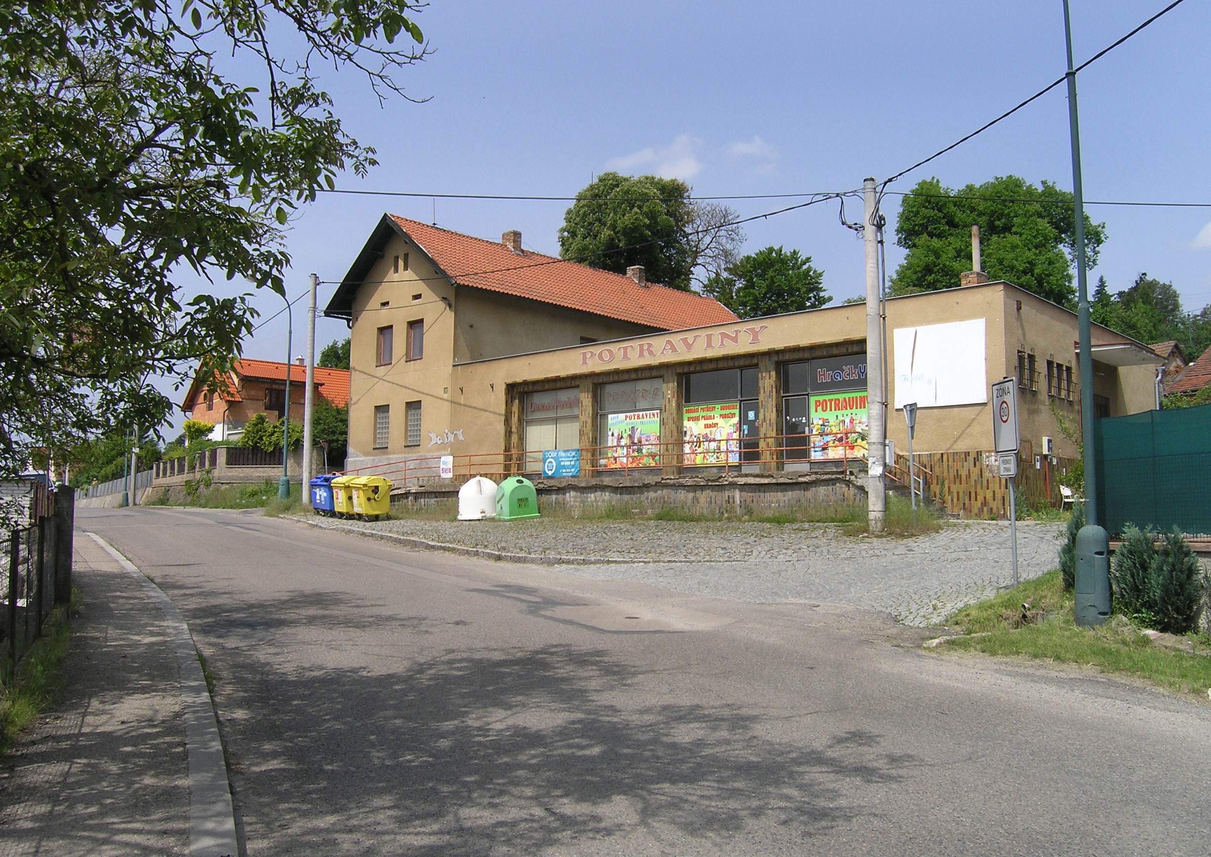 Former shop v Chrást nad Sázavou, part of Týnec nad Sázavou, Czech Republic